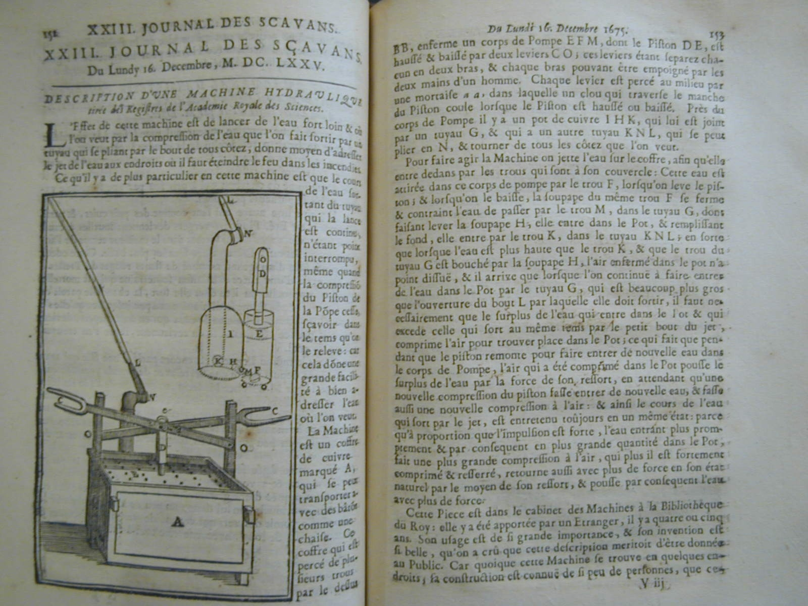 Rough translation: This fire pump is of unknown origin, as the article says she was brought there are 4 or 5 years by a stranger. However, it shows a great mastery of the air and water in 1671, and this date coincides with the entry of Denis Papin at the Academy of Sciences in Paris, at the age of 24 years. Operation: Water is thrown with buckets on the surface of the box, and falls through the holes in the bottom. With the two sleeves, the pump is actuated by pulling sends water into a first tank. Pushing the pump, the water can not out thanks to a check valve, the water is sent to a second tank which fills gradually and between pressure because air is trapped. the elasticity of the air in the second tank, maintained by the pump provides a continuous stream, and direct the jet to extinguish fire points.